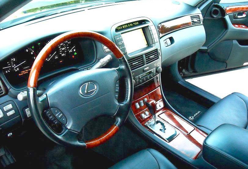 Lexus LS 430, Ultra Luxury package, Antique Walnut interior